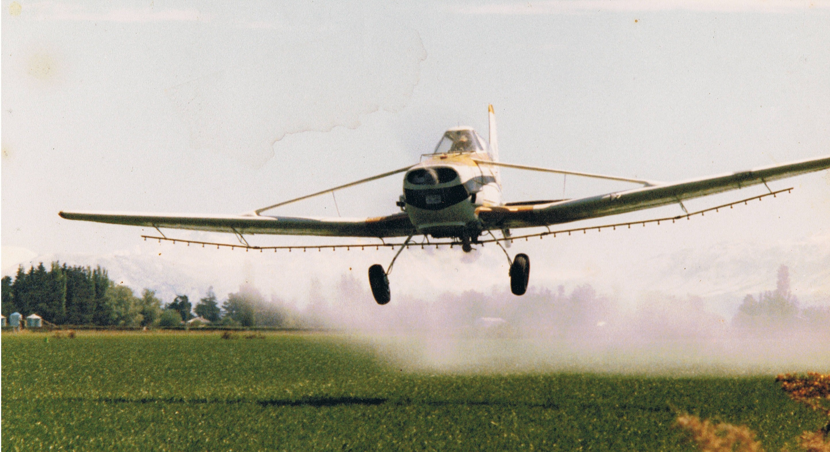 Cessna 188 AGwagon ZK-CSE spraying rust in barley, Eiffeton, mid-Canterbury, New Zealand. Pilot Mr G. Ian Royds